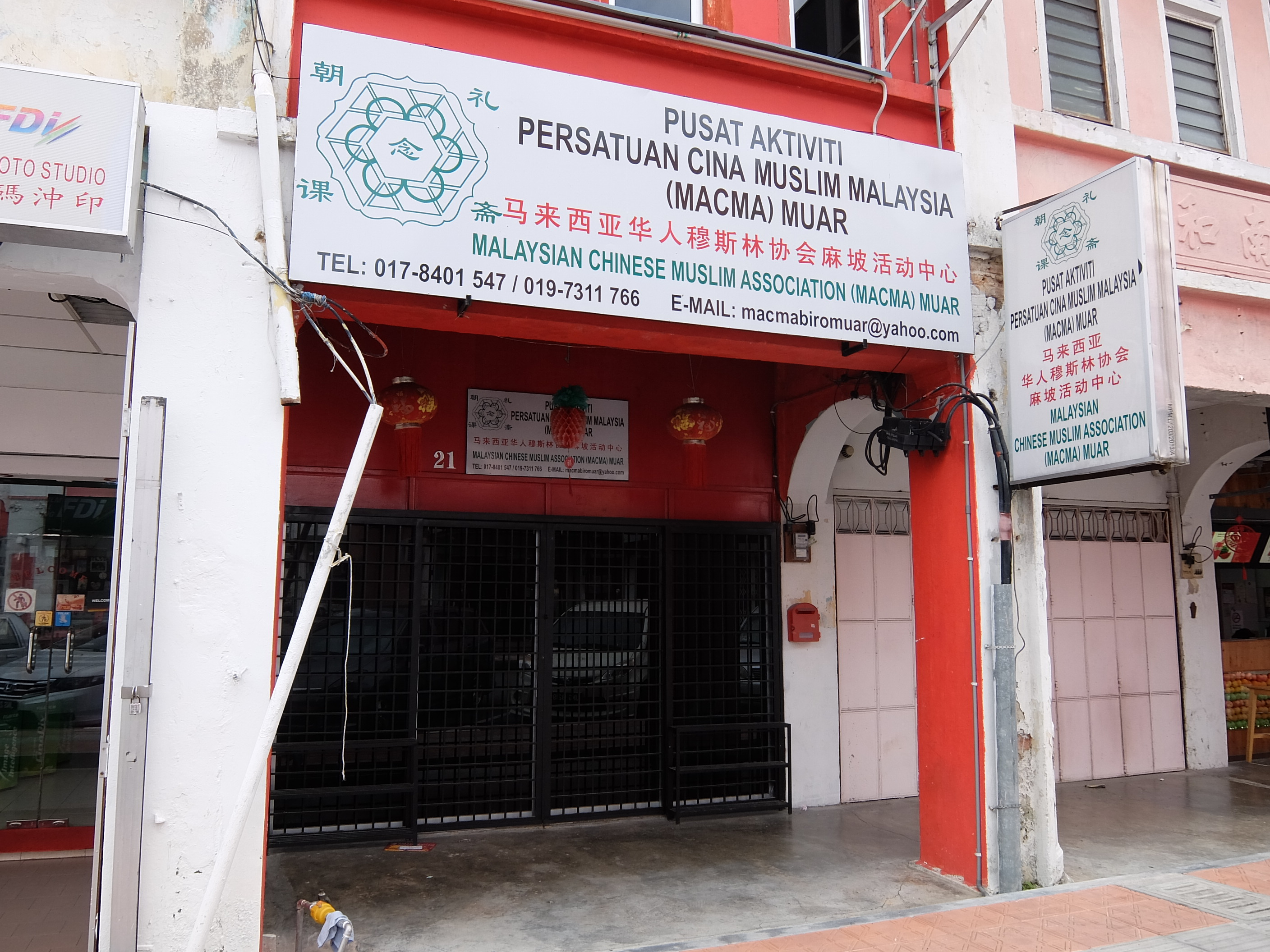 Malaysian Chinese Muslim Association, Bandar Maharani, Muar, Johor, Malaysia